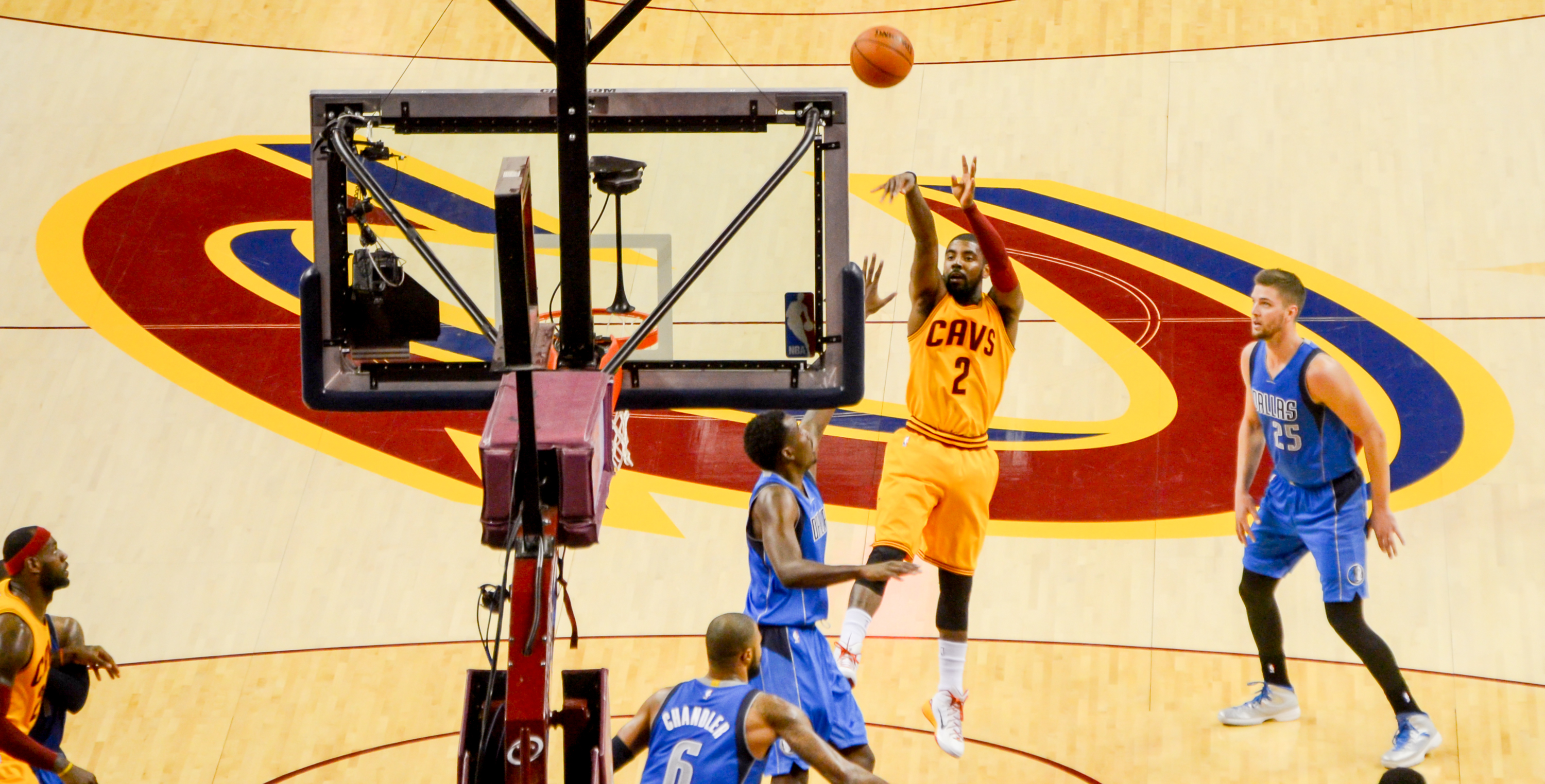 20141017 Cleveland Cavaliers vs Dallas Mavericks